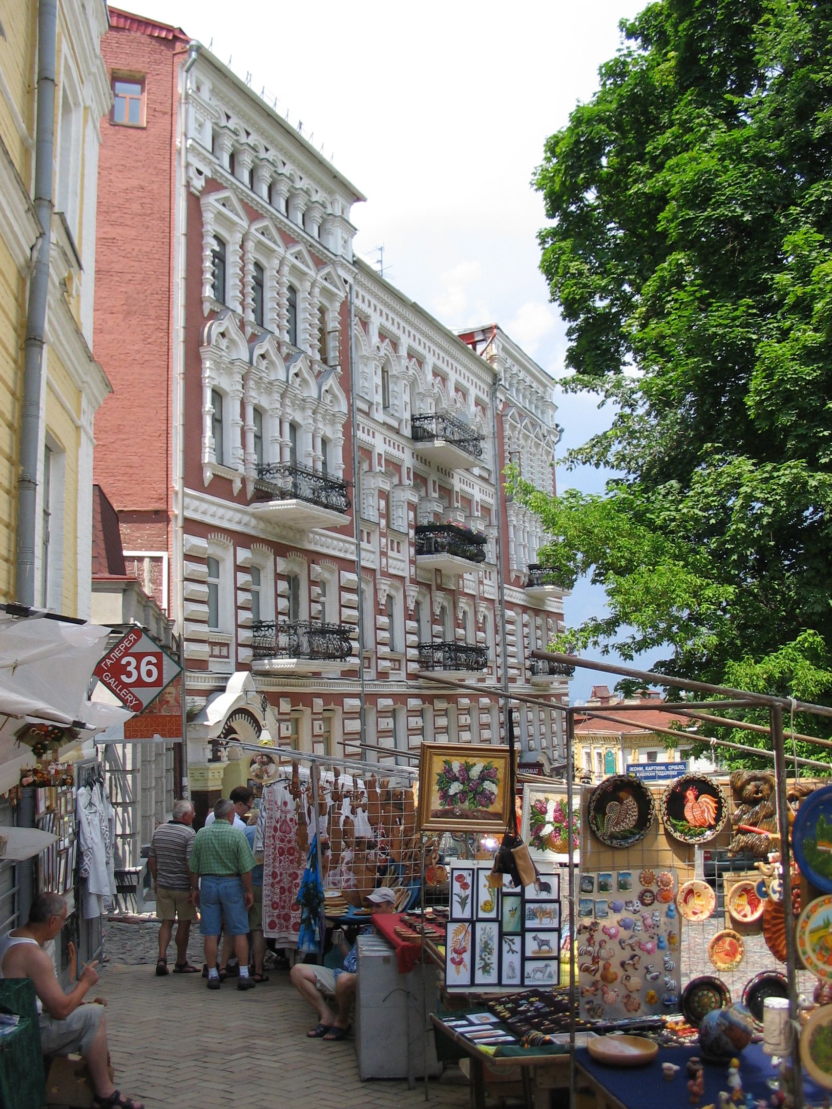 The Andriyivskyi Descent in Kiev, Ukraine.